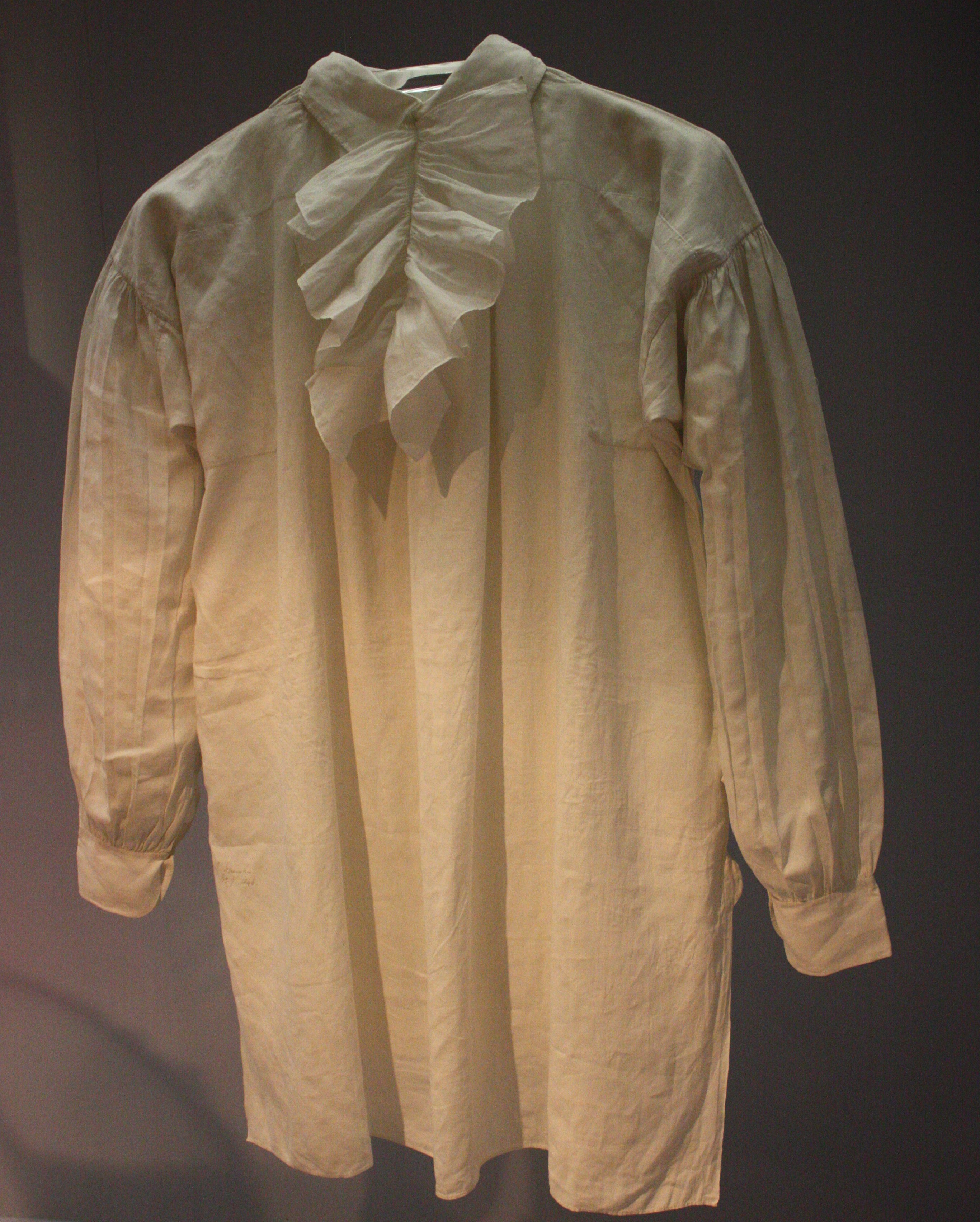 Shirt 1846 Britain Linen (marked in ink with J. Waugh No. 7 1846) During the 19th century men\'s shirts subtly changed shape. This shirt, with its high collar, gathered frills and pleated sleeves is typical of 1840\'s fashions. The amount of exposed shirtfront depended on the style of the waistcoat, which was sometimes cut very low. Occasionally the front was entirely covered by a colourful cravat. Given by Miss F.G. Waugh Collection ID: T.104-1934 This photo was taken as part of Britain Loves Wikipedia in February 2010 by Valerie McGlinchey.